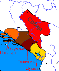 Serbian Sclaveni.